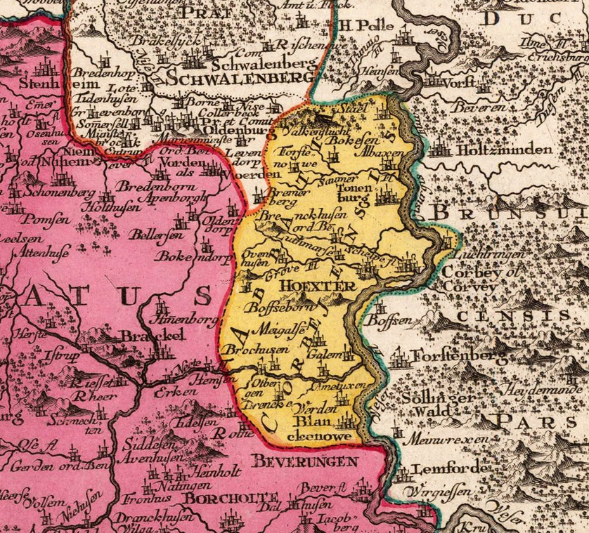 Territory of the Prince-Abbey of Corvey in the mid-18th century. Corvey is bordered in the west and south by the Prince-Bishopric of Paderborn. Cropped from a map of Paderborn by Seutter-Lotter (Episcopatus Paderbornensis in Suas Dioeces et Praefect exacte distincti opera et Sumptibus Matth. Seutt. S.C.M. Geogr. C. Privil Vicar 1756.)